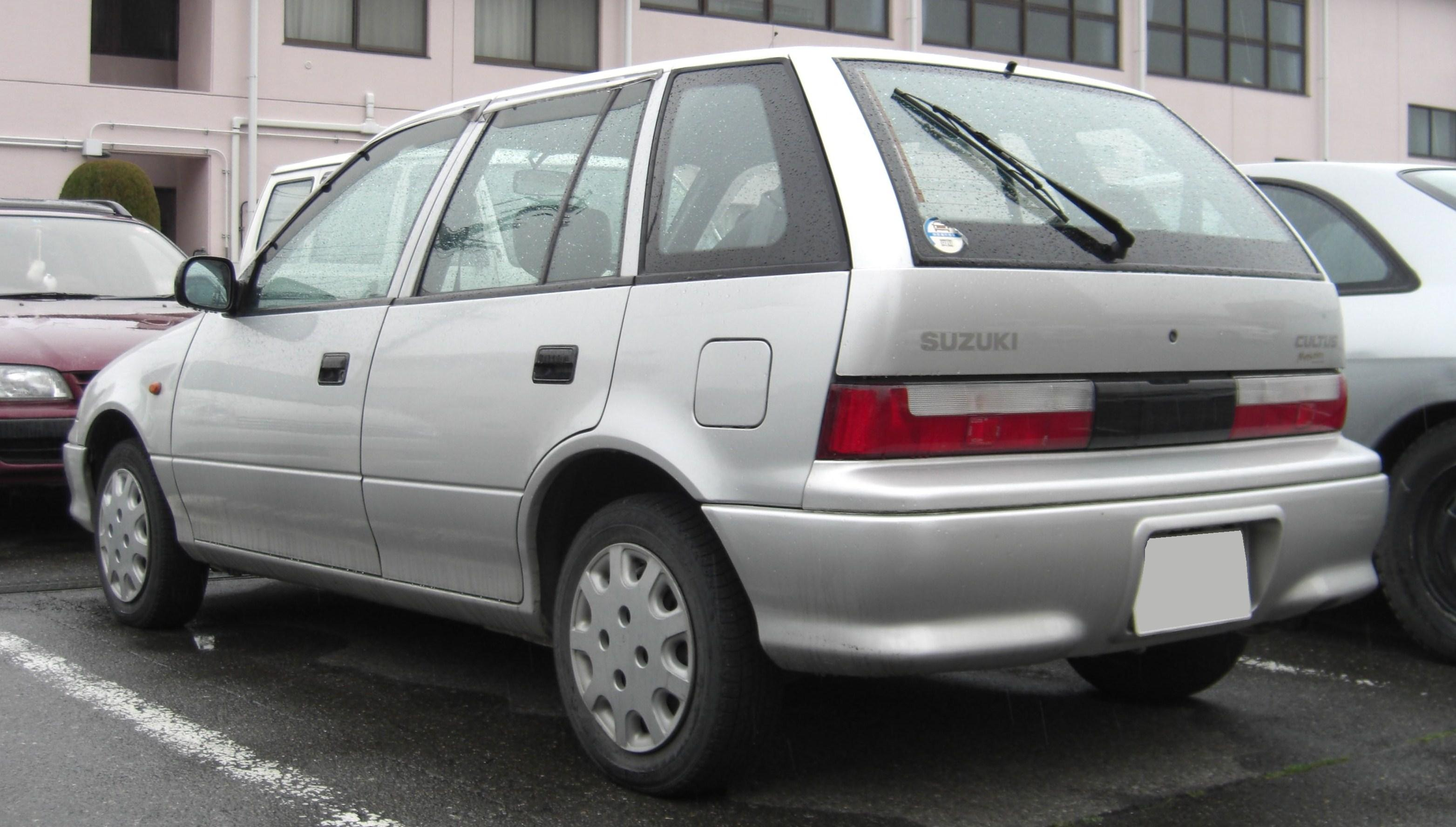 Suzuki Cultus in Japan